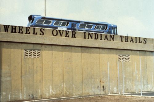 John Fekner © 1979-1990 Wheels Over Indian Trails, Long Island City, NY. Pulaski Bridge overpass at the Queens Midtown Tunnel. Estate of John Fekner. The first stencil in a tribute to the thirteen Native American tribes who inhabited Long Island. Other stencils included in the project were Mespatches Indians 1607, Rechquakie Indians 1600 and Asphalt Indian Trails. John Fekner